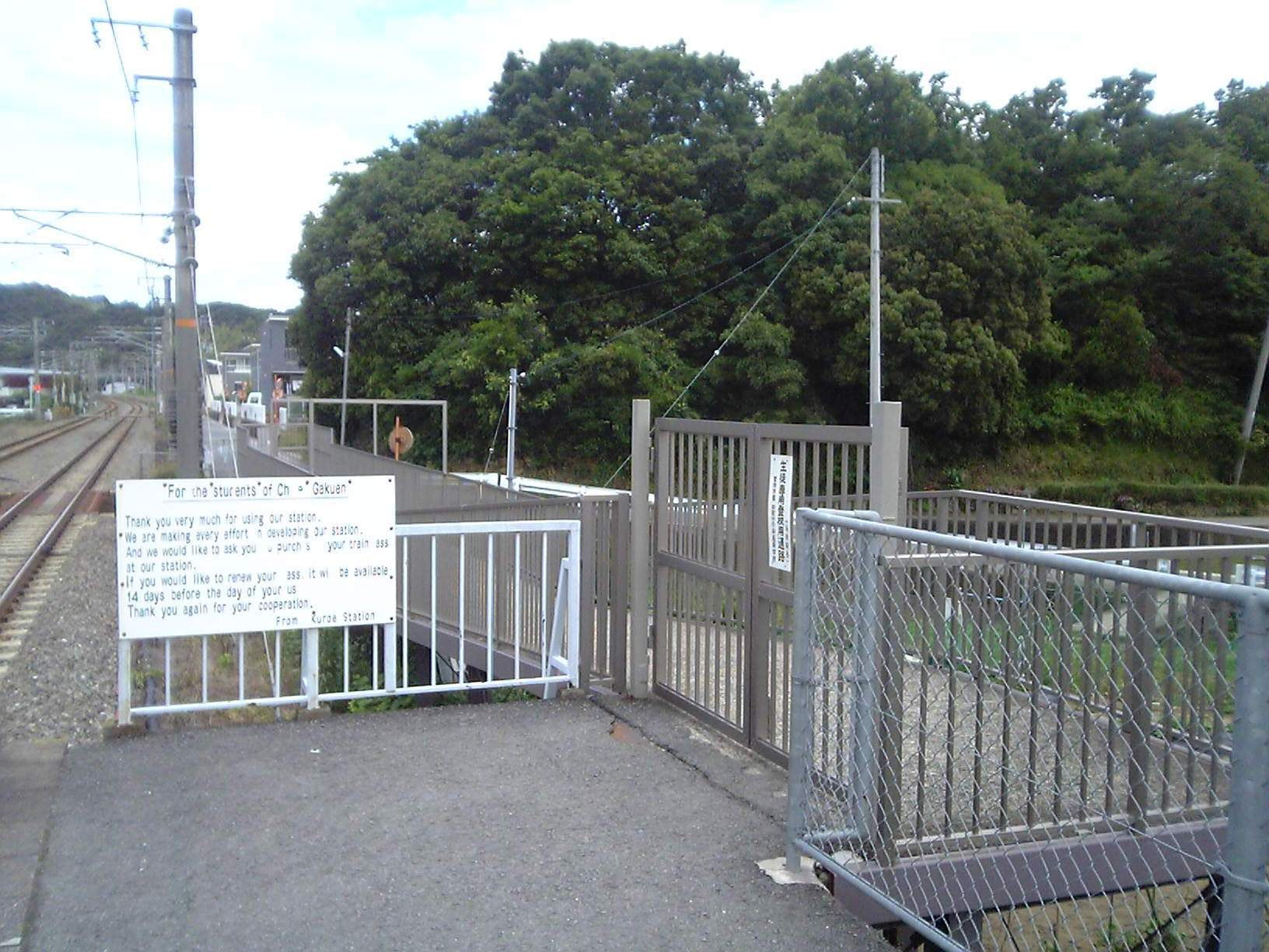 Designated exit for Chiben Gakuen schools, on Kuroe Station Platform 2